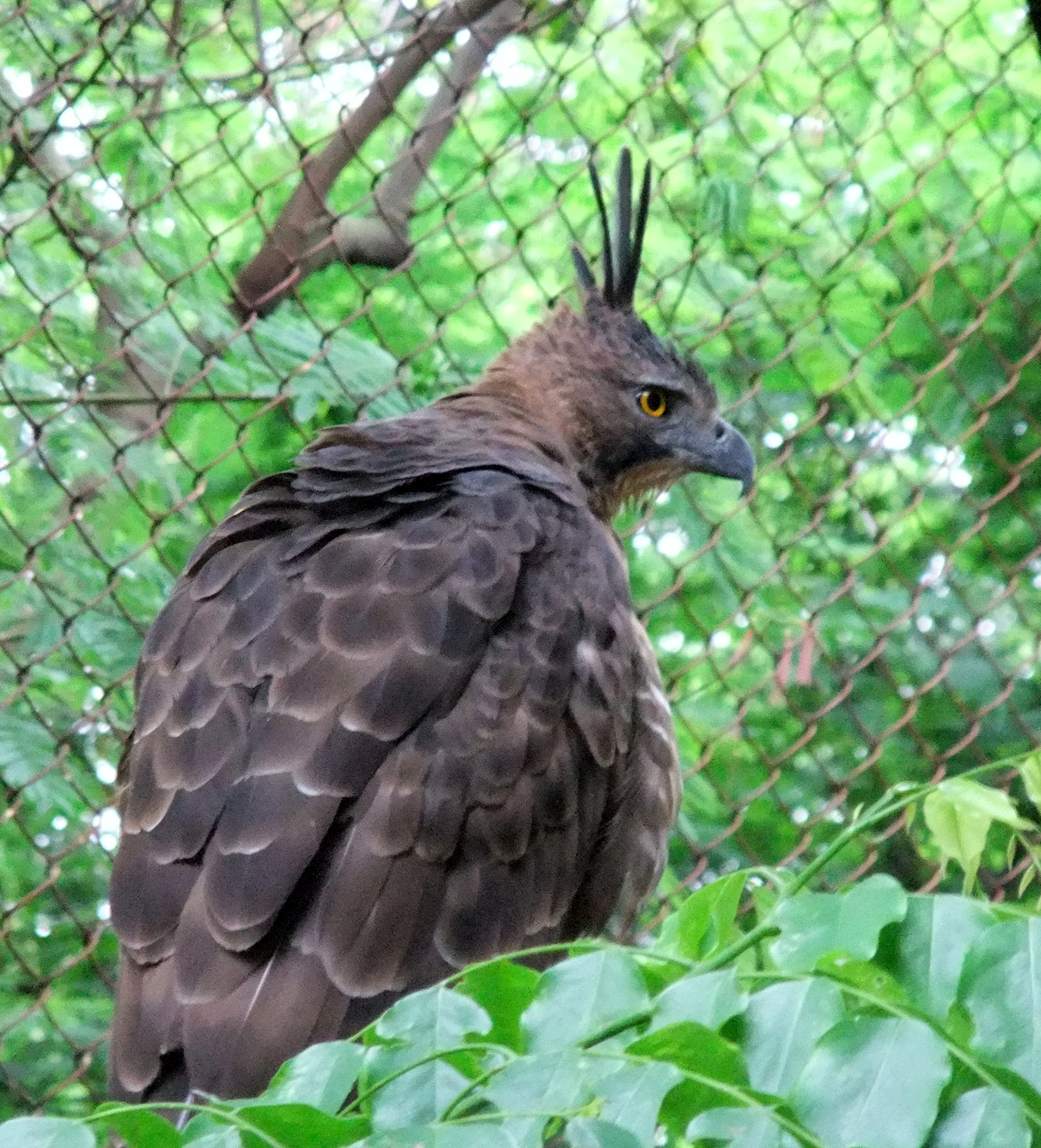 Javan Hawk-eagle (Nisaetus bartelsi), Bandung Zoo